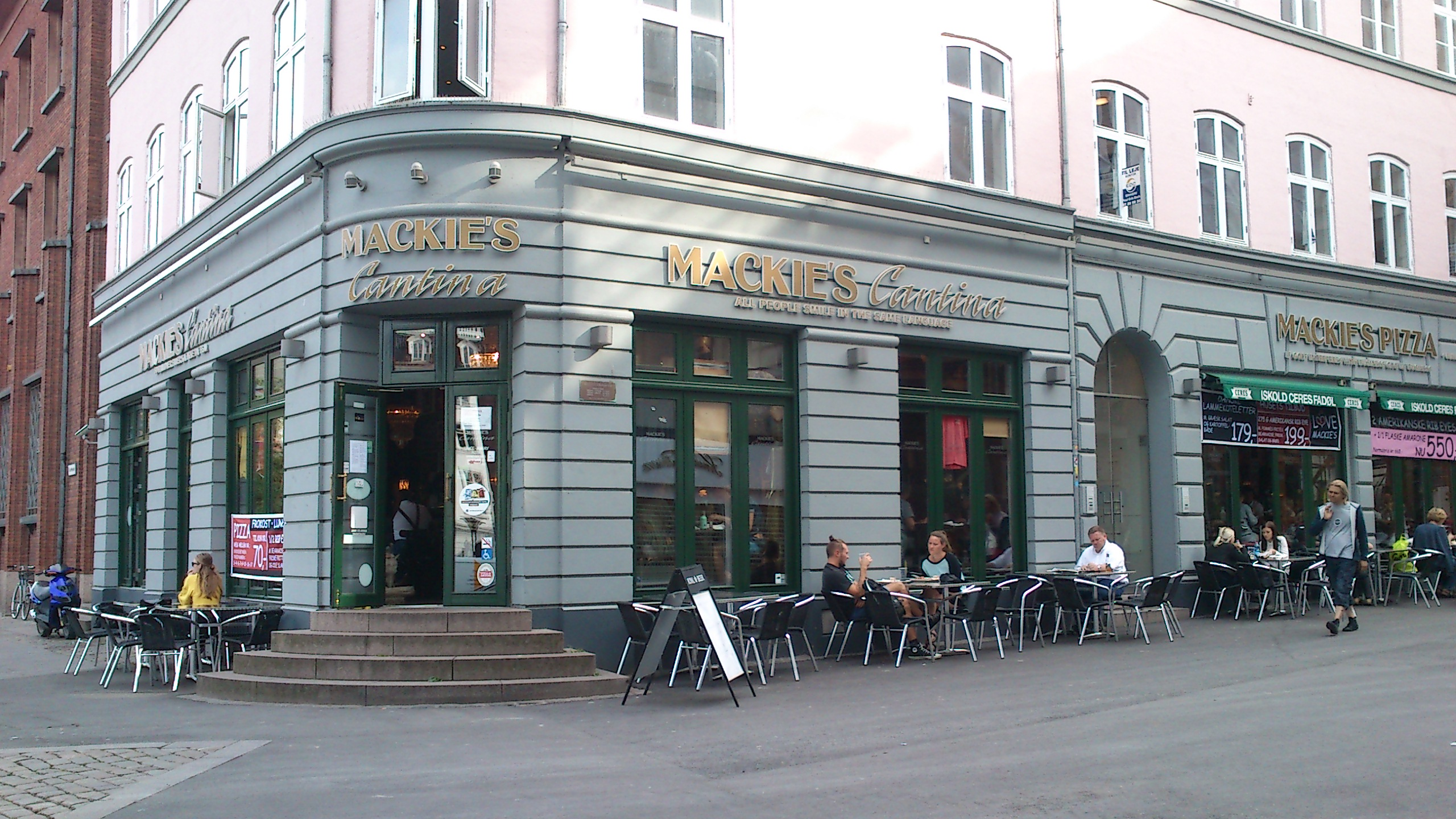 Mackie's Cantina and Mackie's Pizza